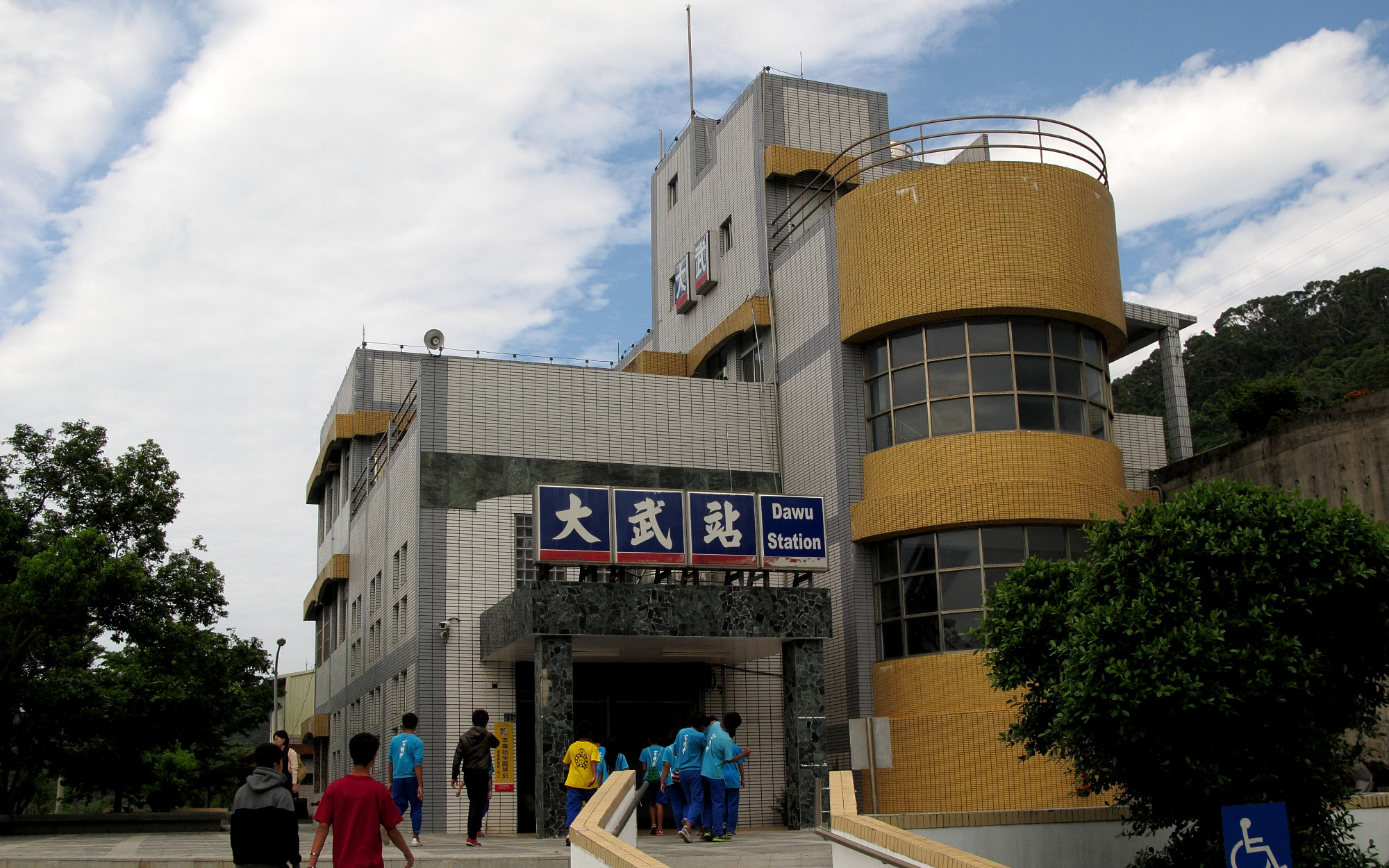 Dawu Station is one of the three major railway stations in TRA Sorth-Link Line.It located in Dawu Township,Taitung County.中文（中国大陆）: 大武车站是台铁南回线三大重要车站之一。它位于台东县大武乡。